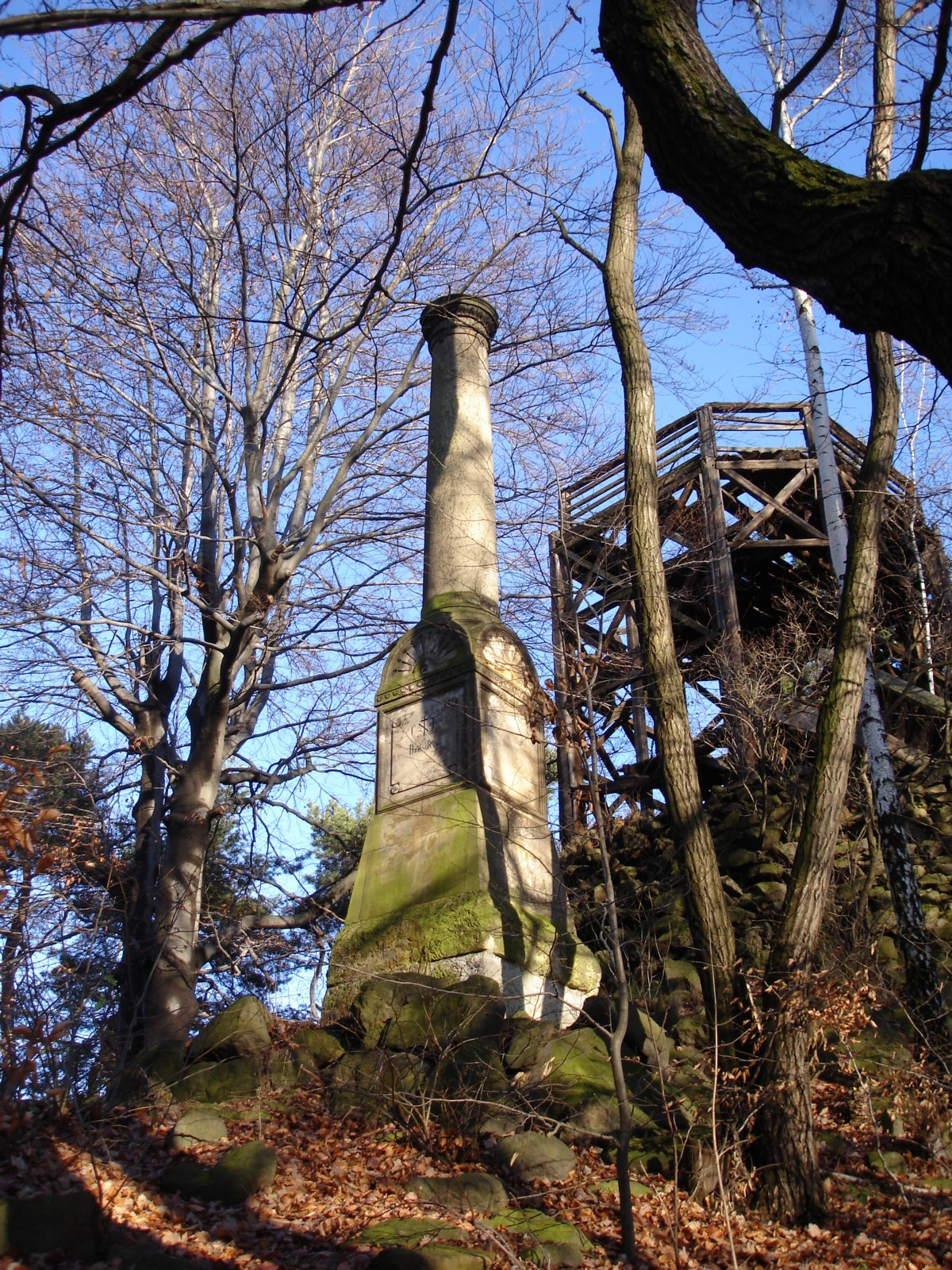 Trigonometric survey point of 1865 on the Borsberg, Dresden, Saxony, Germany